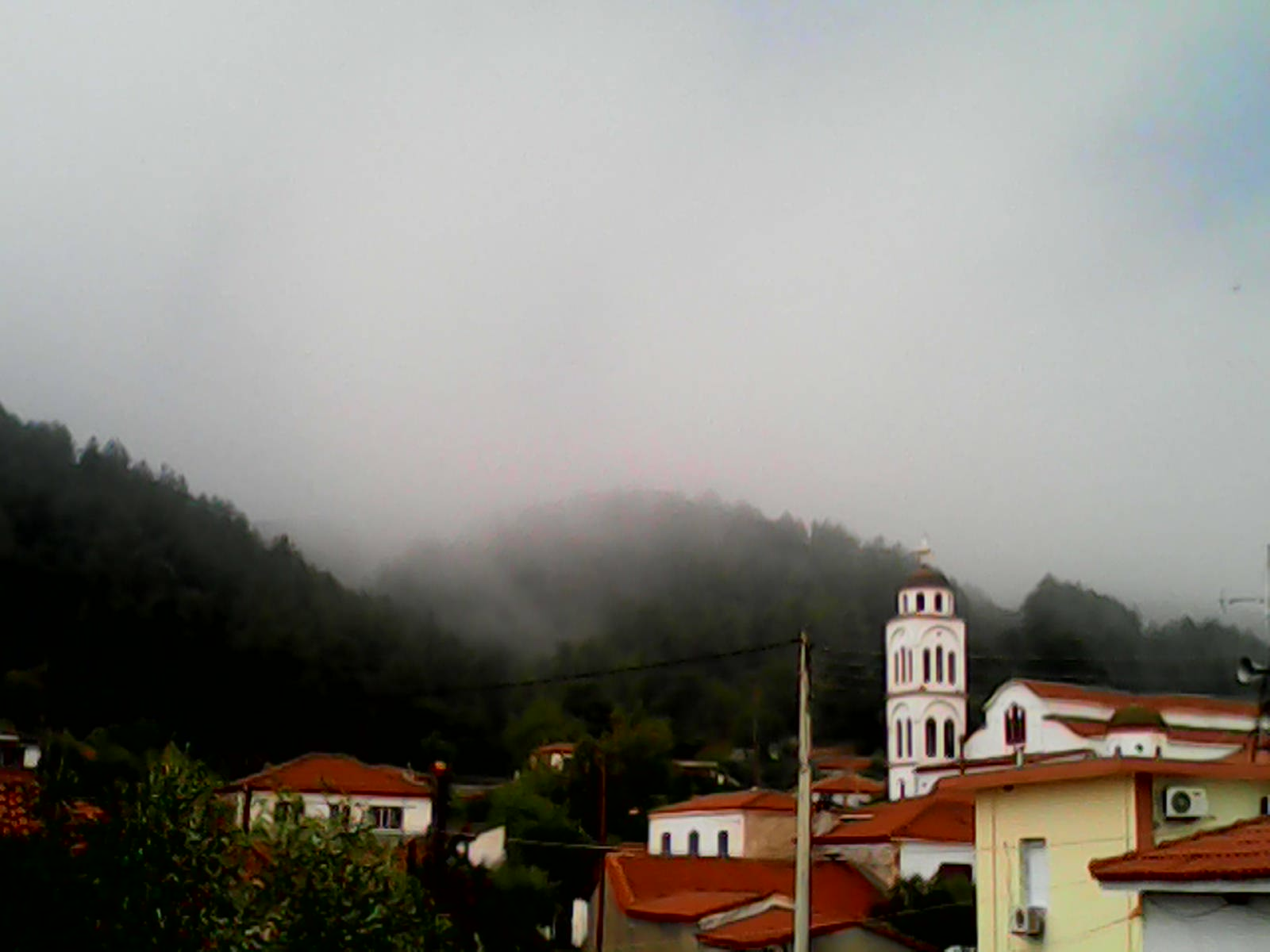 Gratini village, Rhodope, Thrace, Greece.